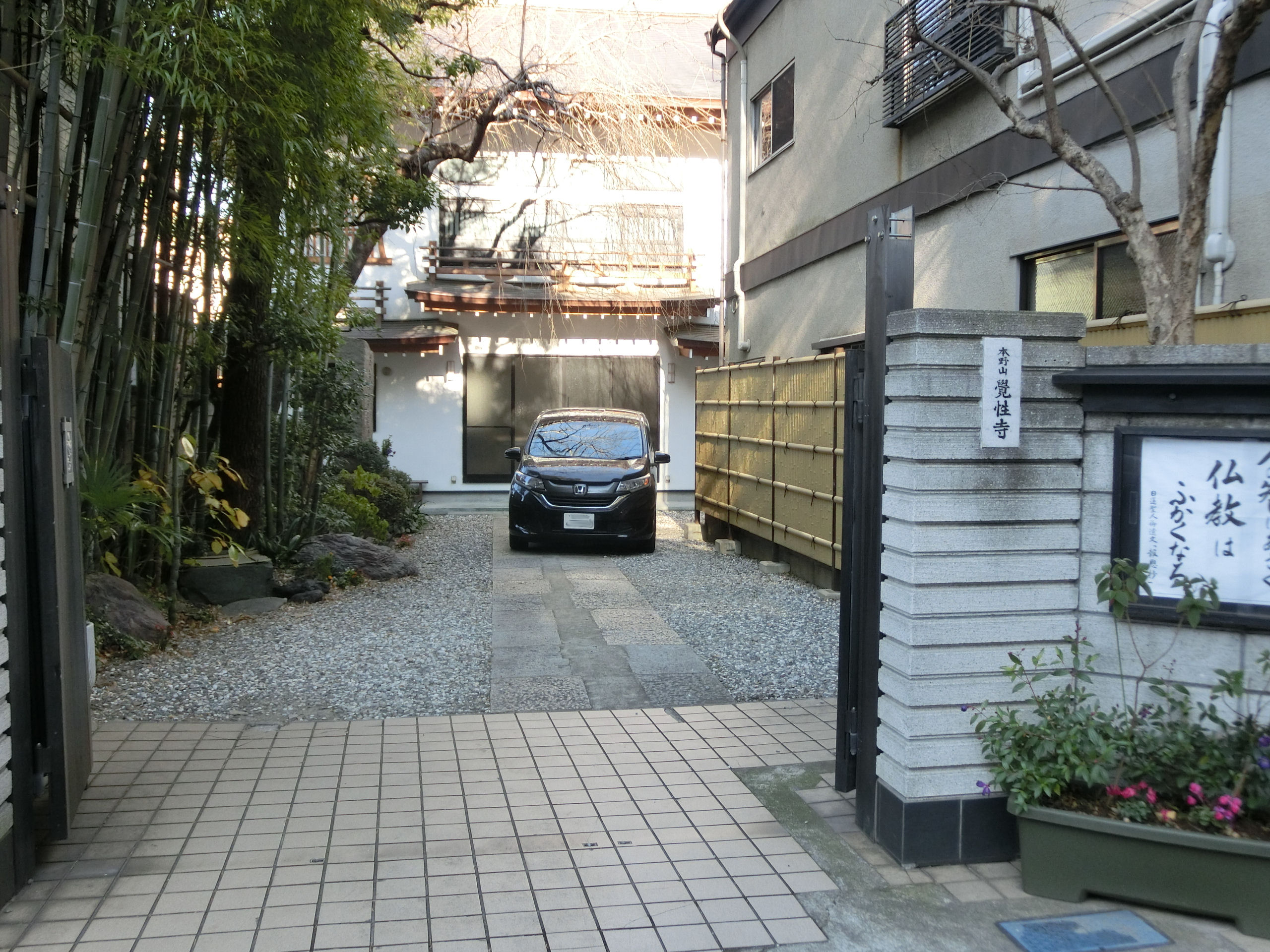 Kakusho-ji (Taito)